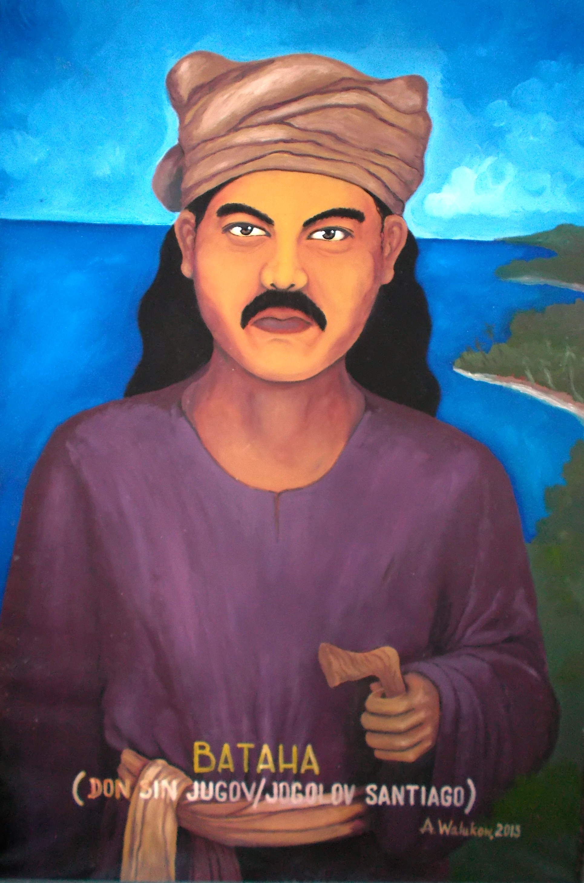 Bataha Santiago